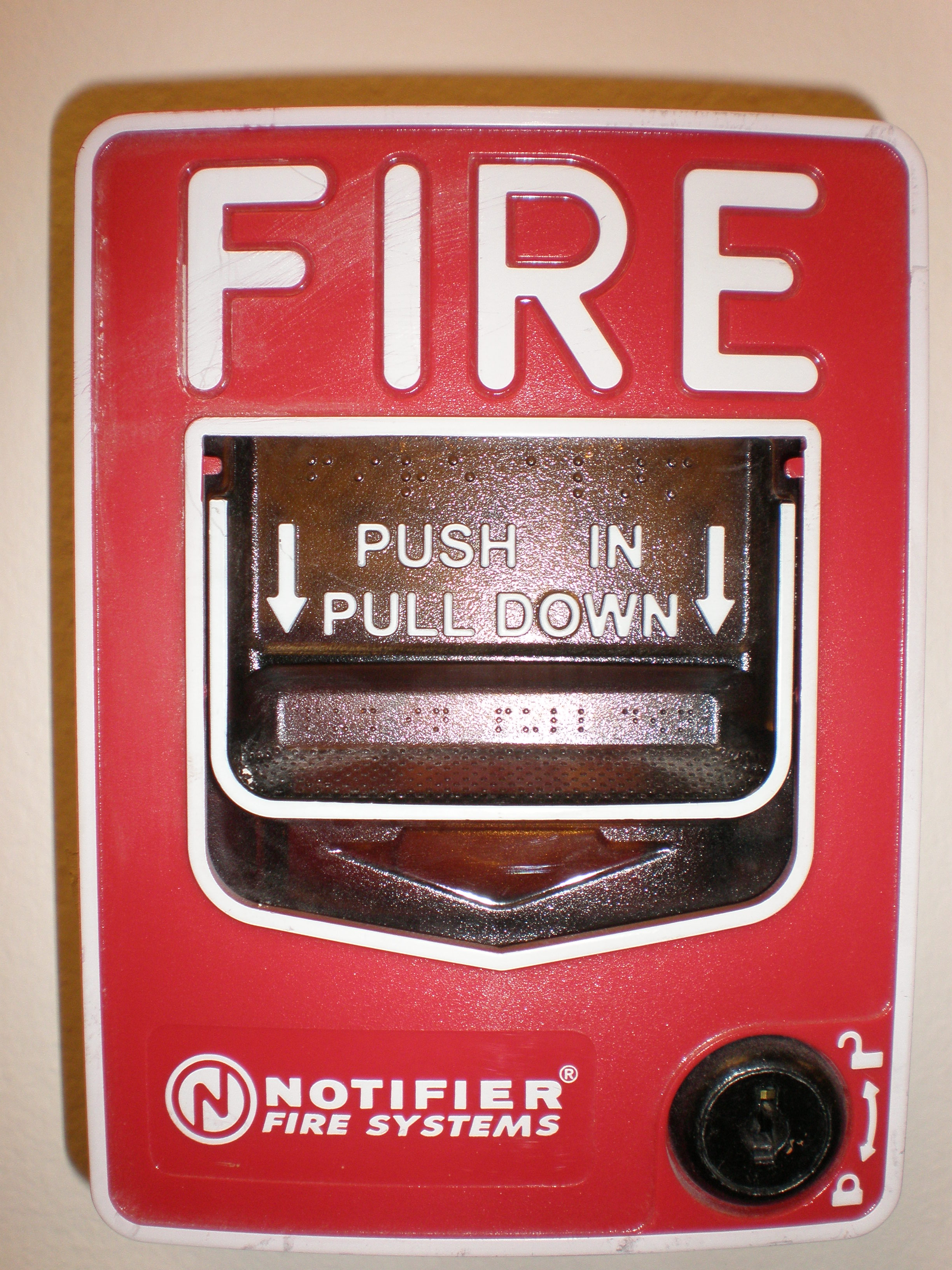 A Notifier Fire Systems fire alarm